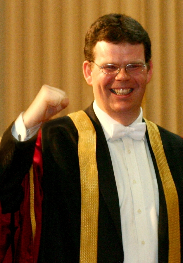 Peter McColl on being installed as Rector of the University of Edinburgh. April 2012, Old College, Edinburgh.